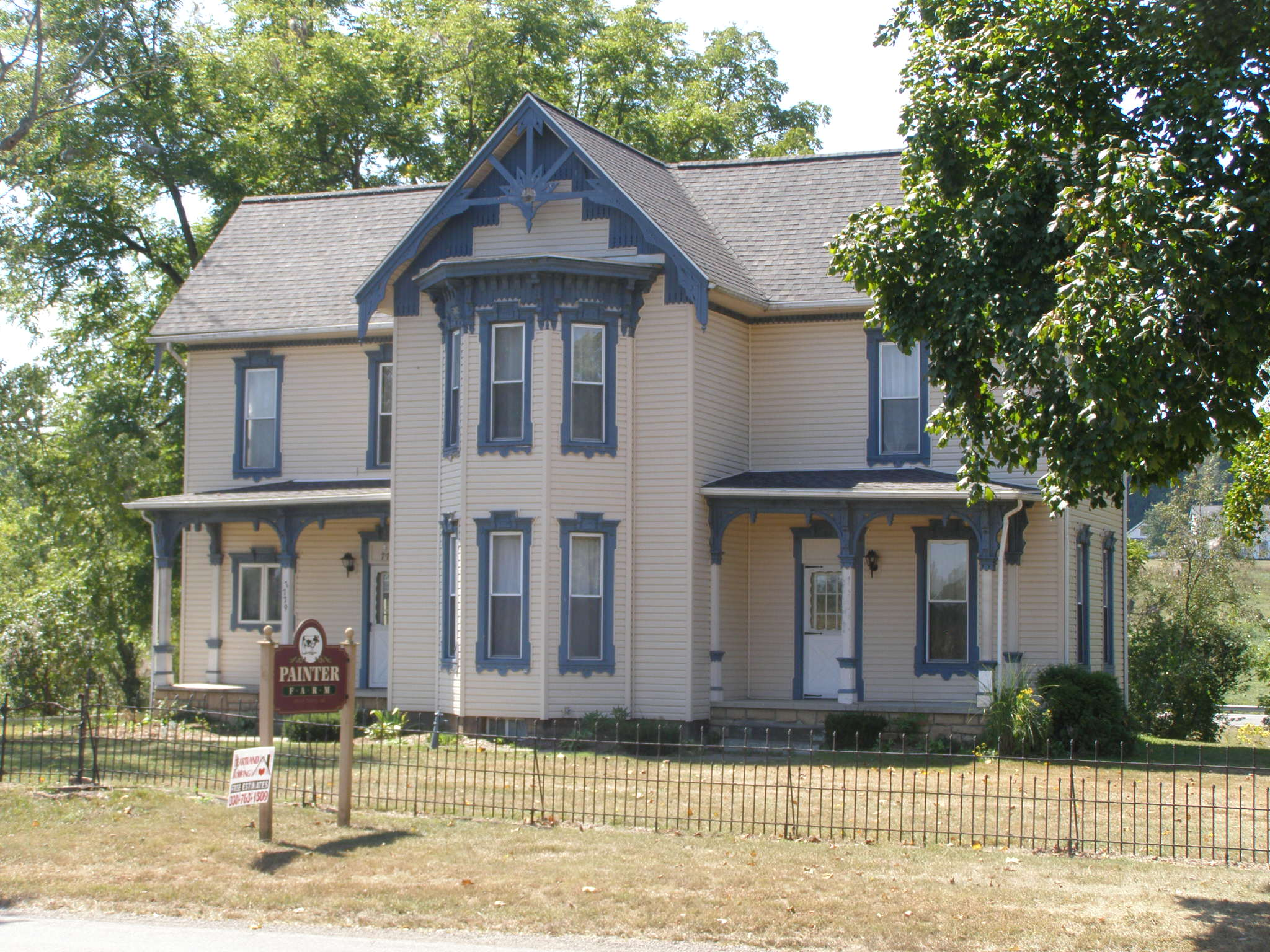 Joseph Armstrong Farm, Holmes County, Ohio